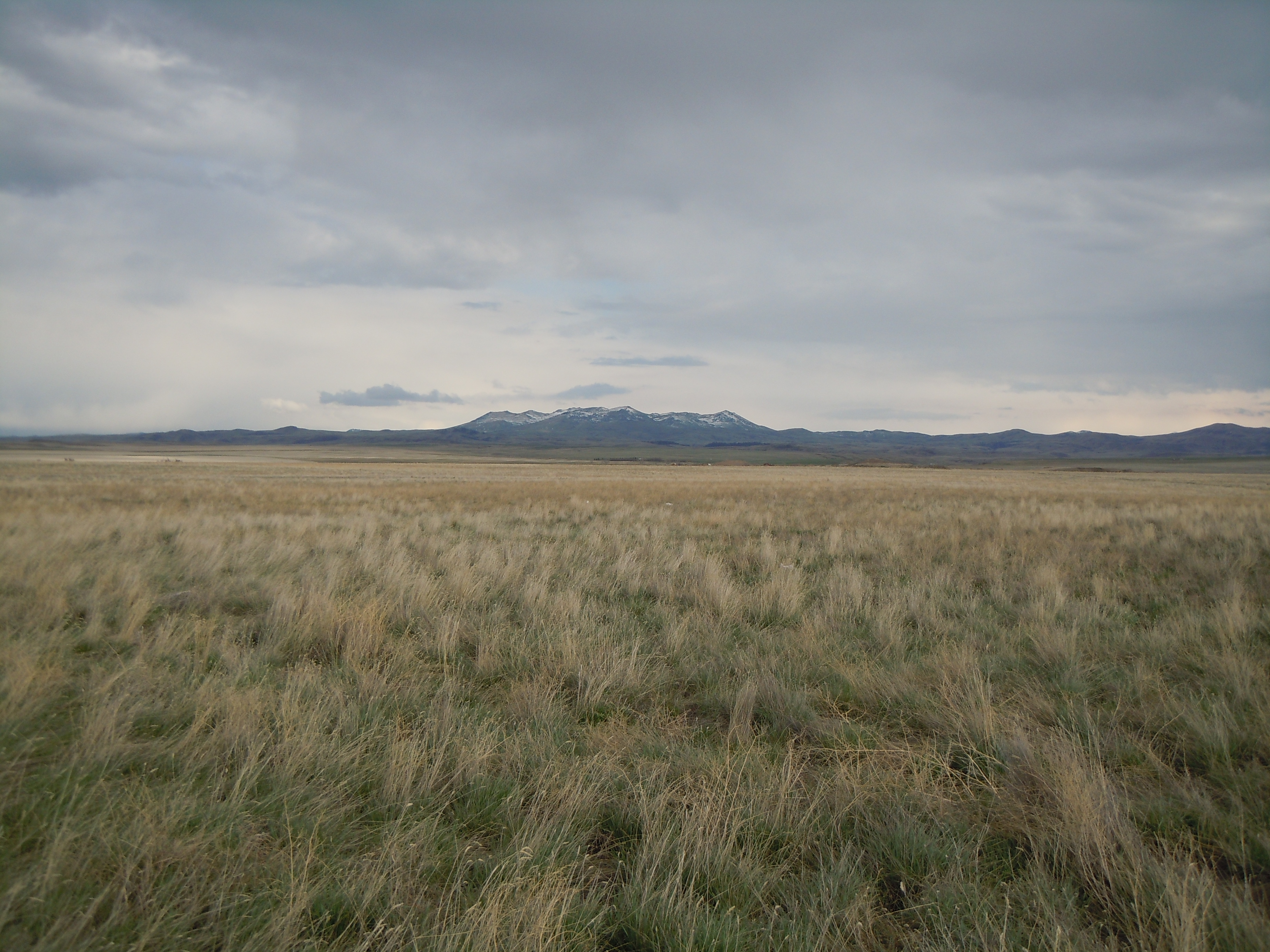 Between Havre and Box Elder along hwy 87 looking south at the Bear's Paw Mountains. The vast expanse of crested wheatgrass (Agropyron cristatum) throughout Montana renders moot the question "how has climate change influenced native vegeation?".